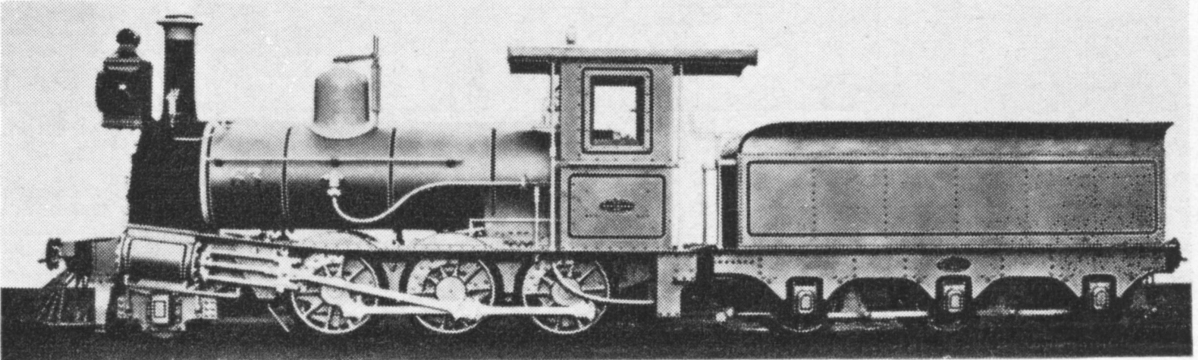 Cape Government Railways 1st Class 2-6-0 "inclined" of 1879, built by Beyer, Peacock